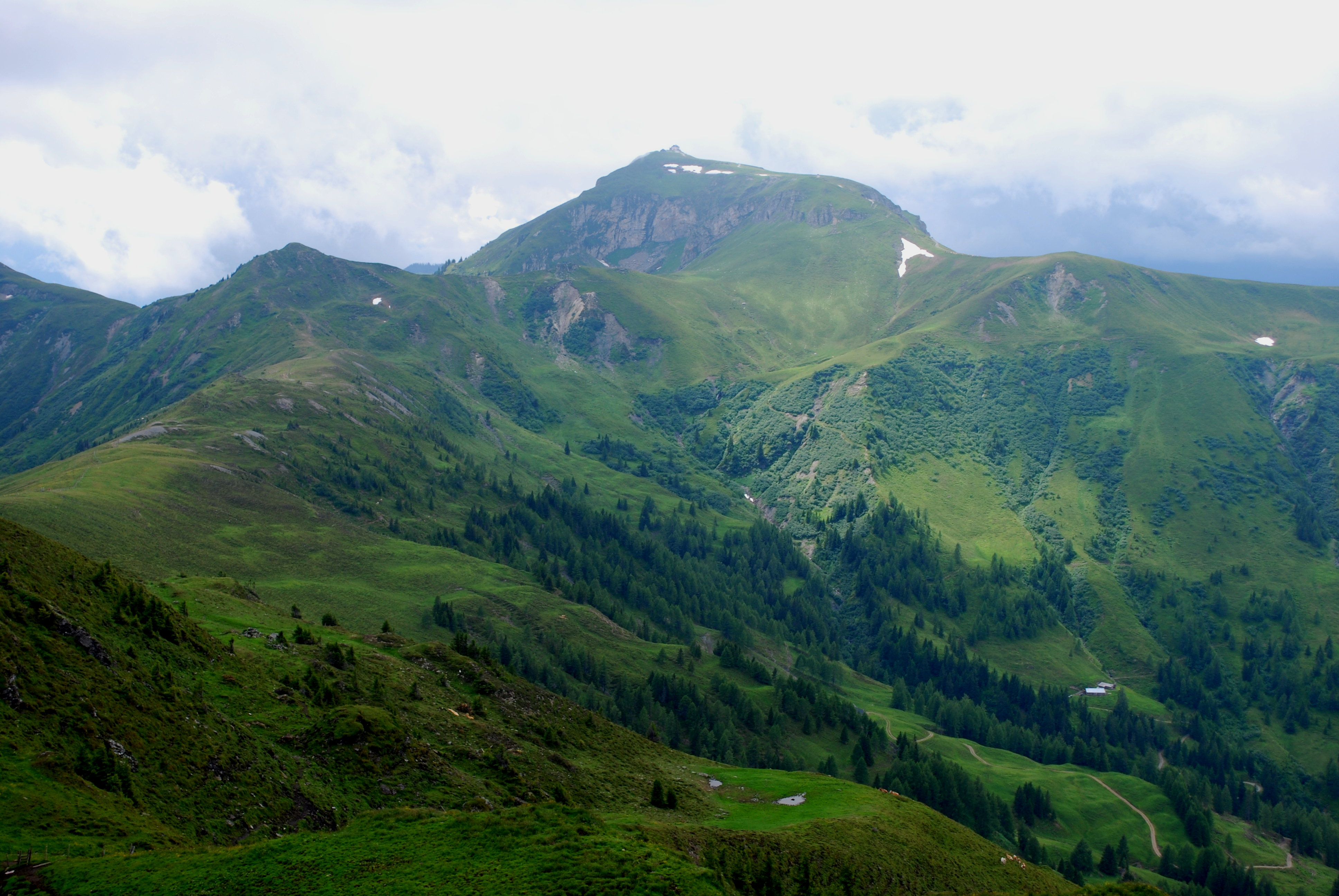 Hundsstein